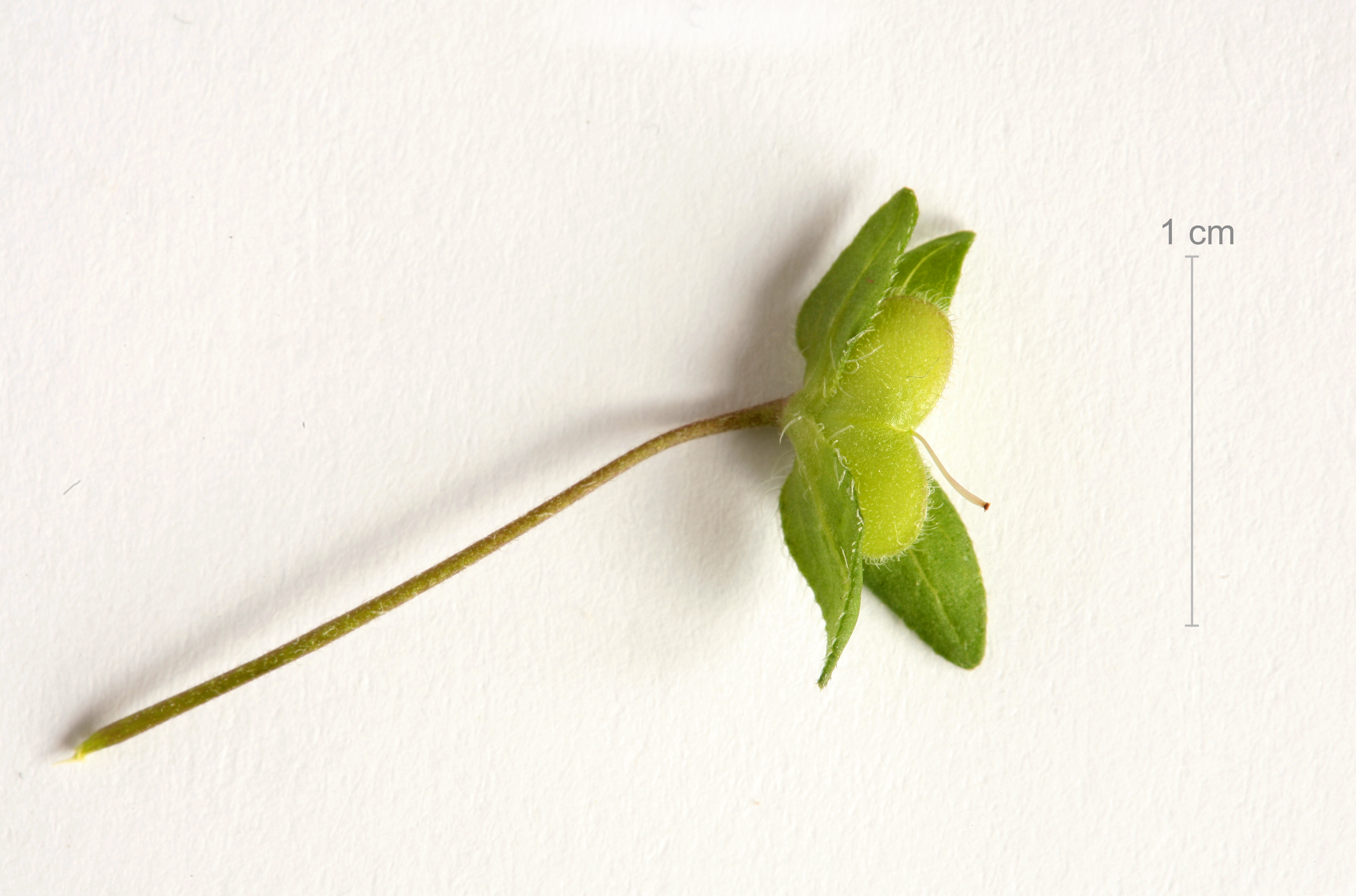 Unripe fruit of Veronica persica